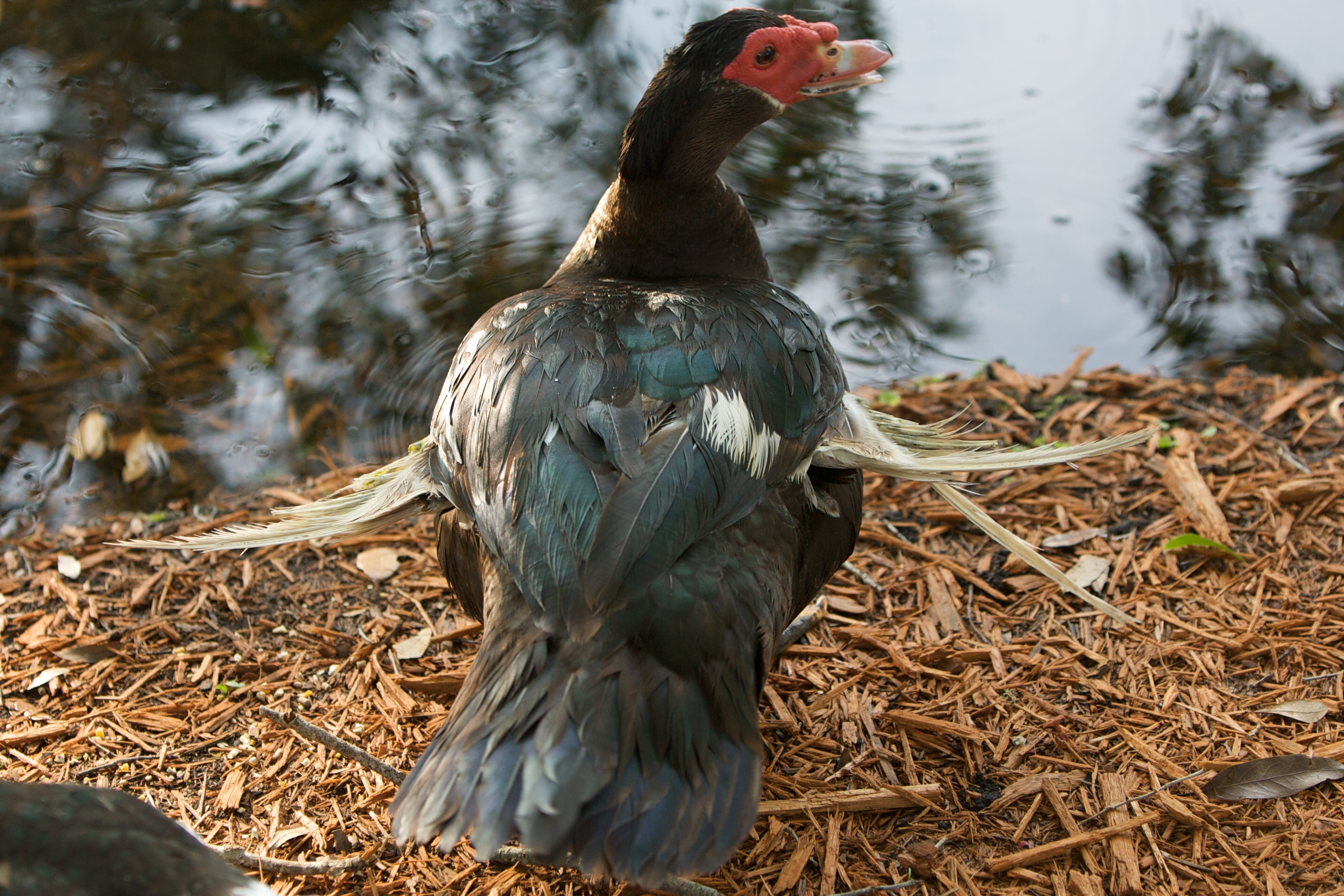 This is an example of a duck with the dietary deficiency disease called Angel Wing